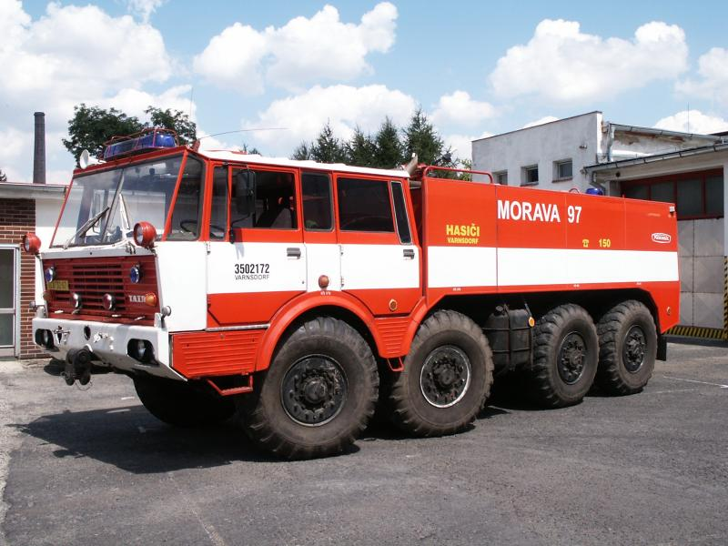 Tatra 813 fire engine